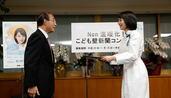 Non, President of the Non Inc., received the Letter of Appointment as the Goodwill Ambassador for the Energy Saving Home Appliances from Yoshiaki Harada, Minister of the Environment, at the Central Government Building No.5 in Chiyoda Ward, Tōkyō Metropolis on November 19, 2018.